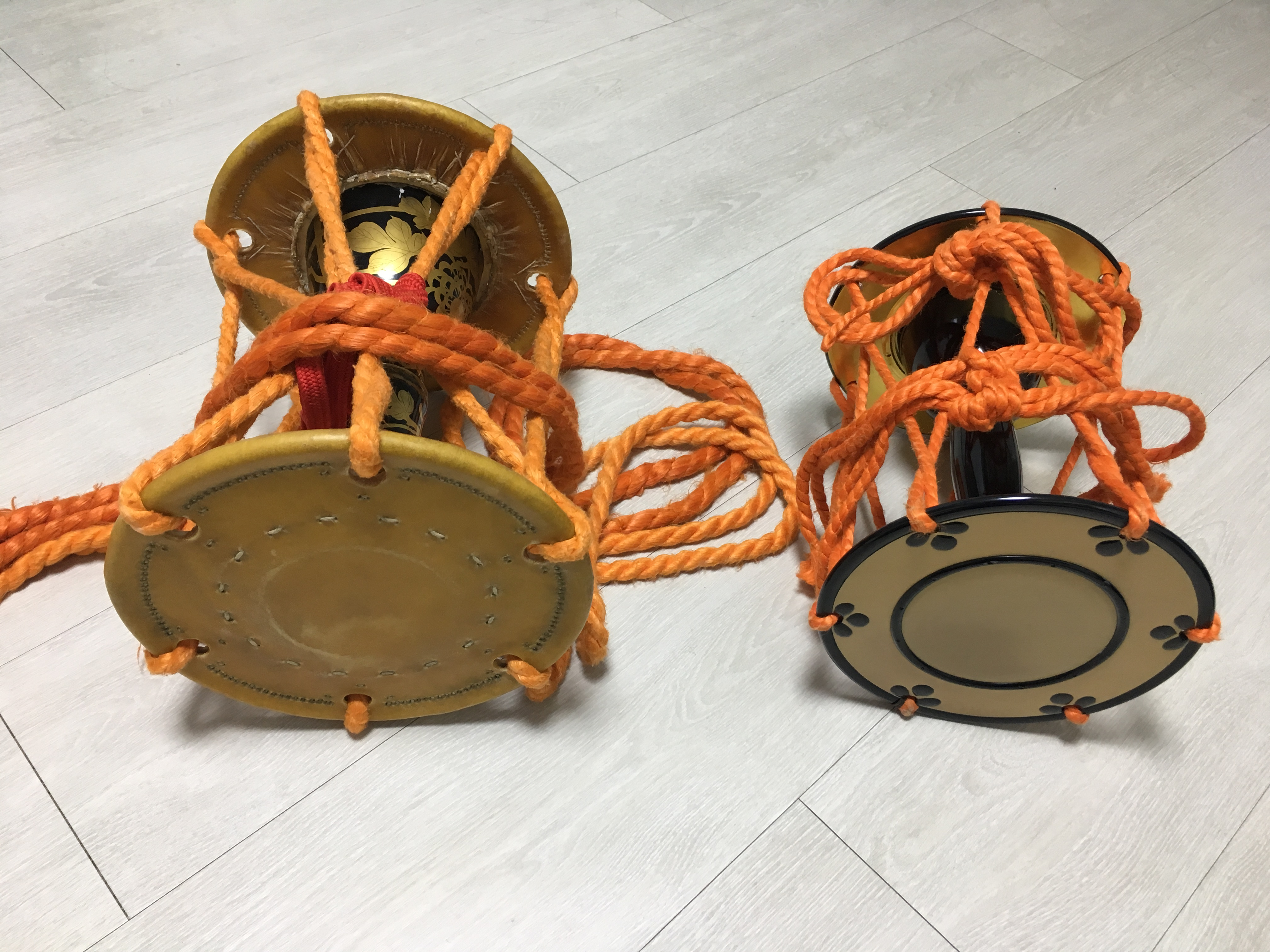 Two Japanese hand drums, namely, the ōtsuzumi(left) and the kotsuzumi(right), presented side-by-side.